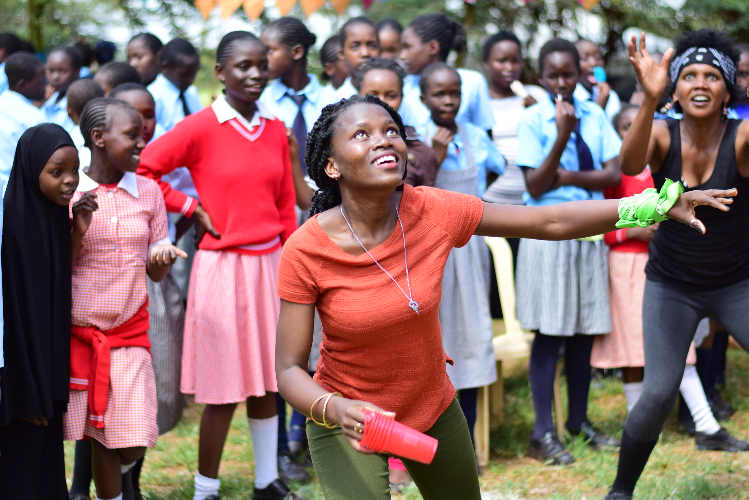 This is an image with the theme "Play" from: Kenya